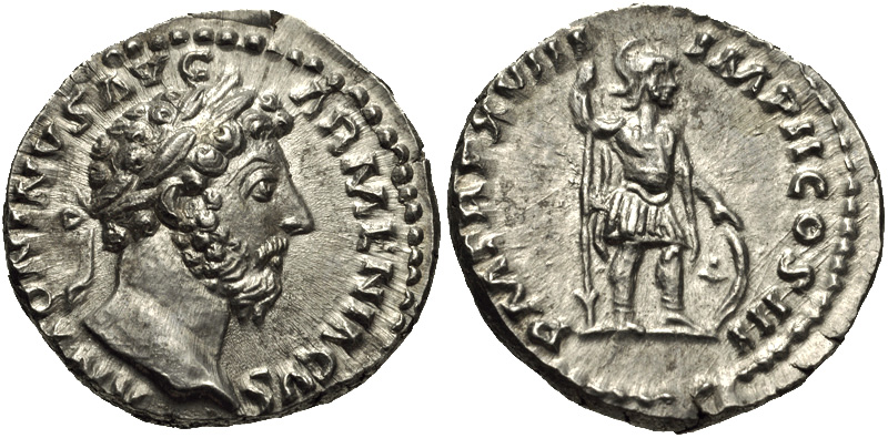 Marcus Aurelius. AD 161-180. AR Denarius (17mm, 3.36 g, 6h). Rome mint. Struck AD 164. ANTONINVS AVG ARMENIACVS Laureate head right PM TR P XVIII IMP II COS III Mars standing right, holding reversed spear and shield set on ground. RIC III 92; MIR 18, 88-4/30; RSC 469. Choice EF, lustrous.